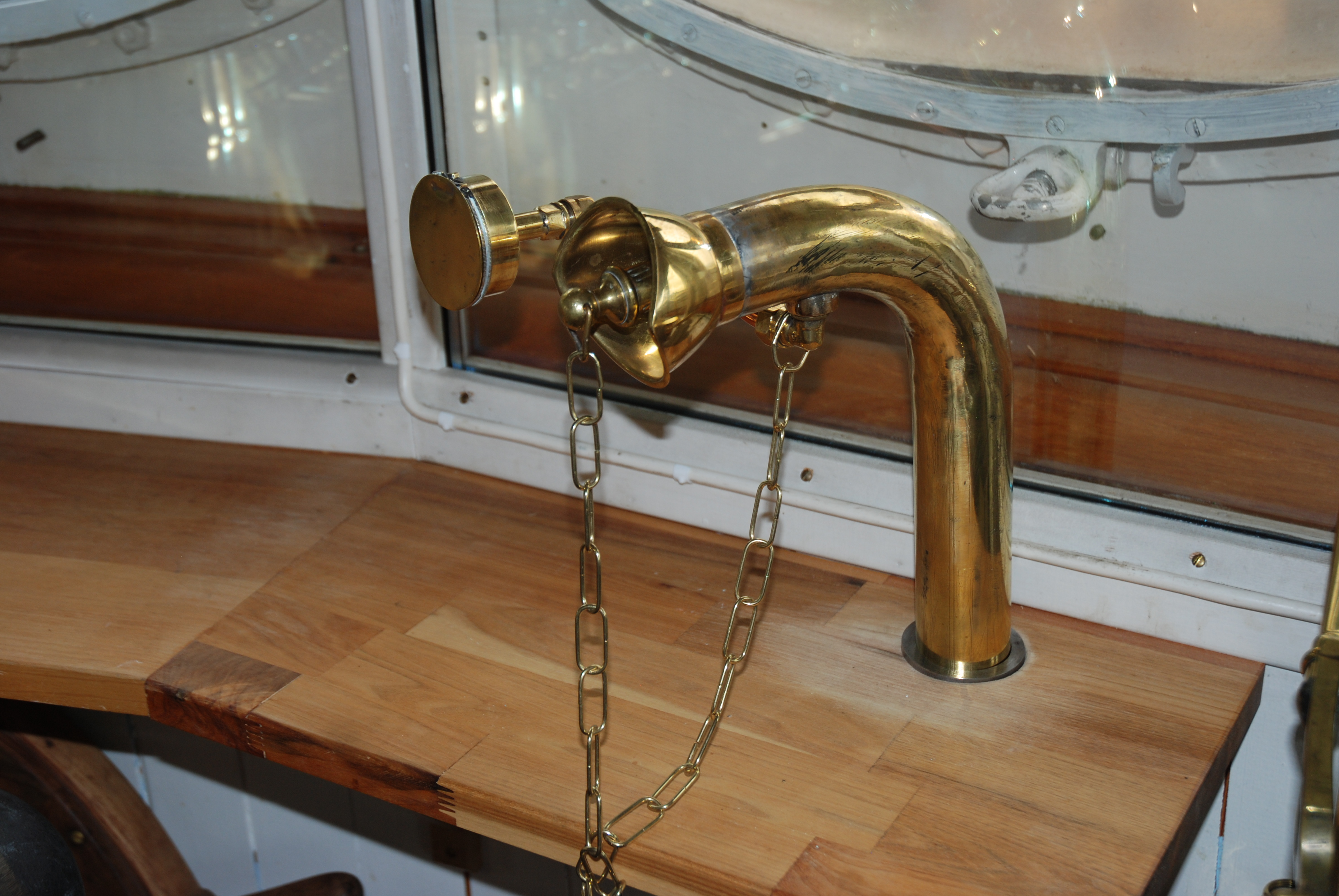 Speaking tube at the bridge of SS Orion Unknown